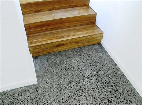 Example of polished concrete